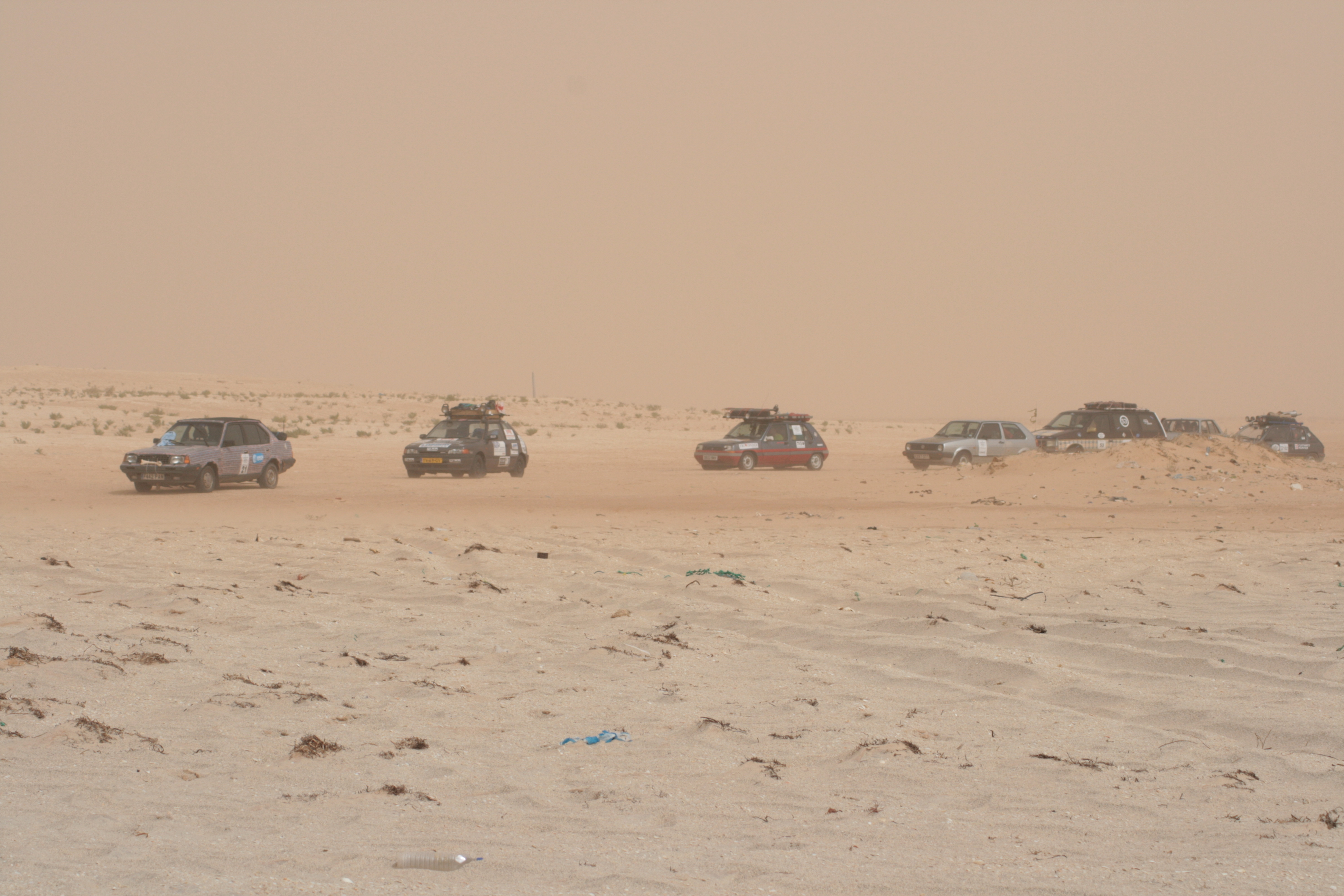 .. is a much quicker convoy :)